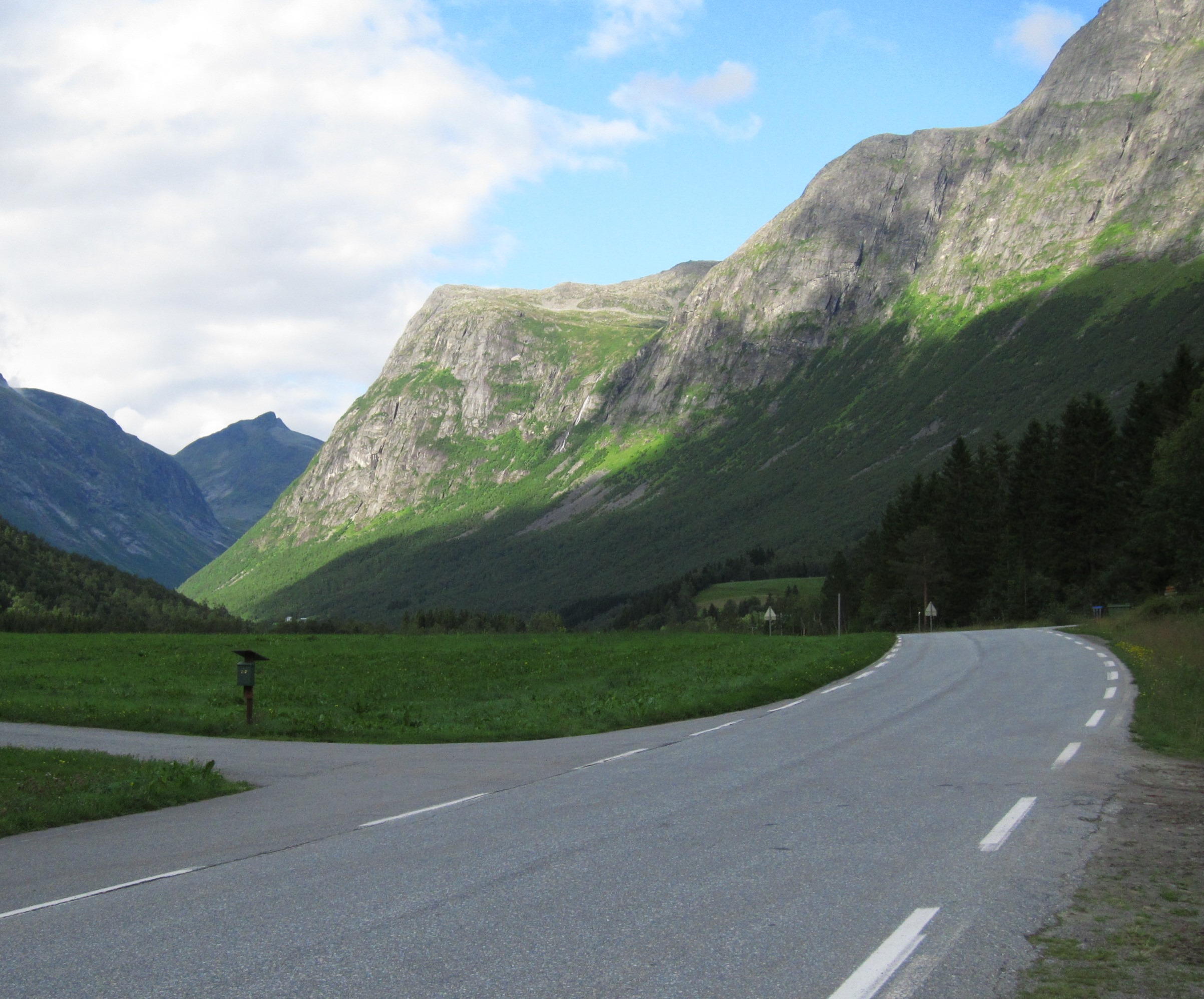 Upper section of Valldal valley, road 63 towards Trollstigen